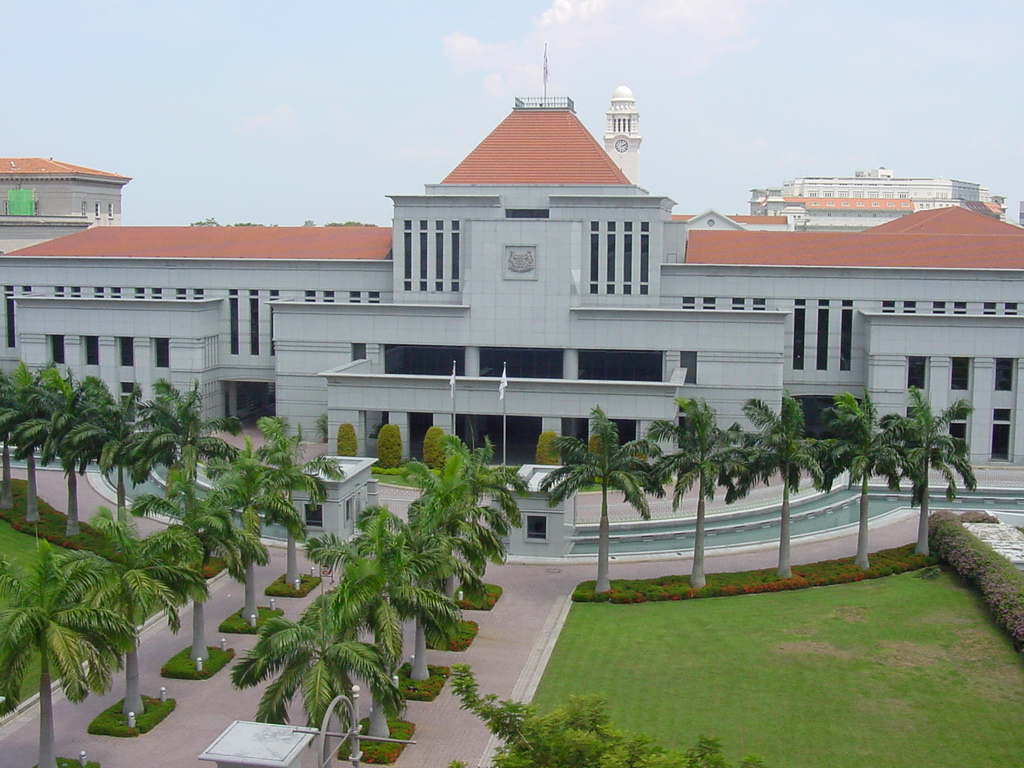 An aerial view of Parliament House in Singapore.